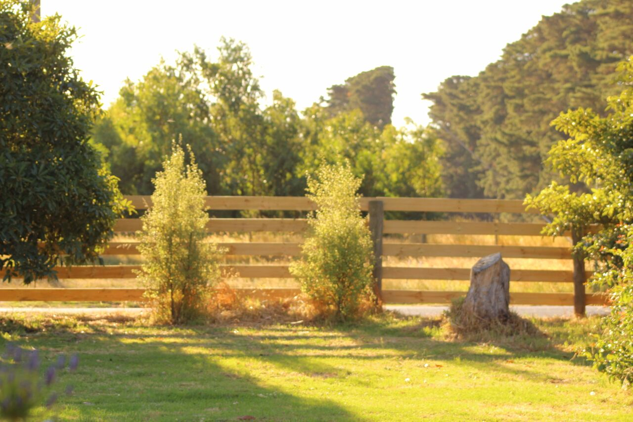 This image was captured in the backyard of a family friend, he's house backs right onto Devil's Bend Reservoir Horse Track.